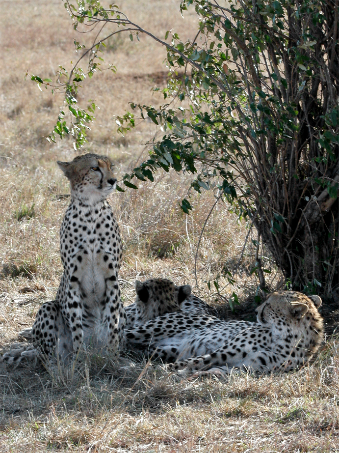 Those are probably the three males known locally as "the three brothers". Taken by Schuyler Shepherd(Unununium272). Canon 350D, 100-400mm f/4.5-5.6 L IS